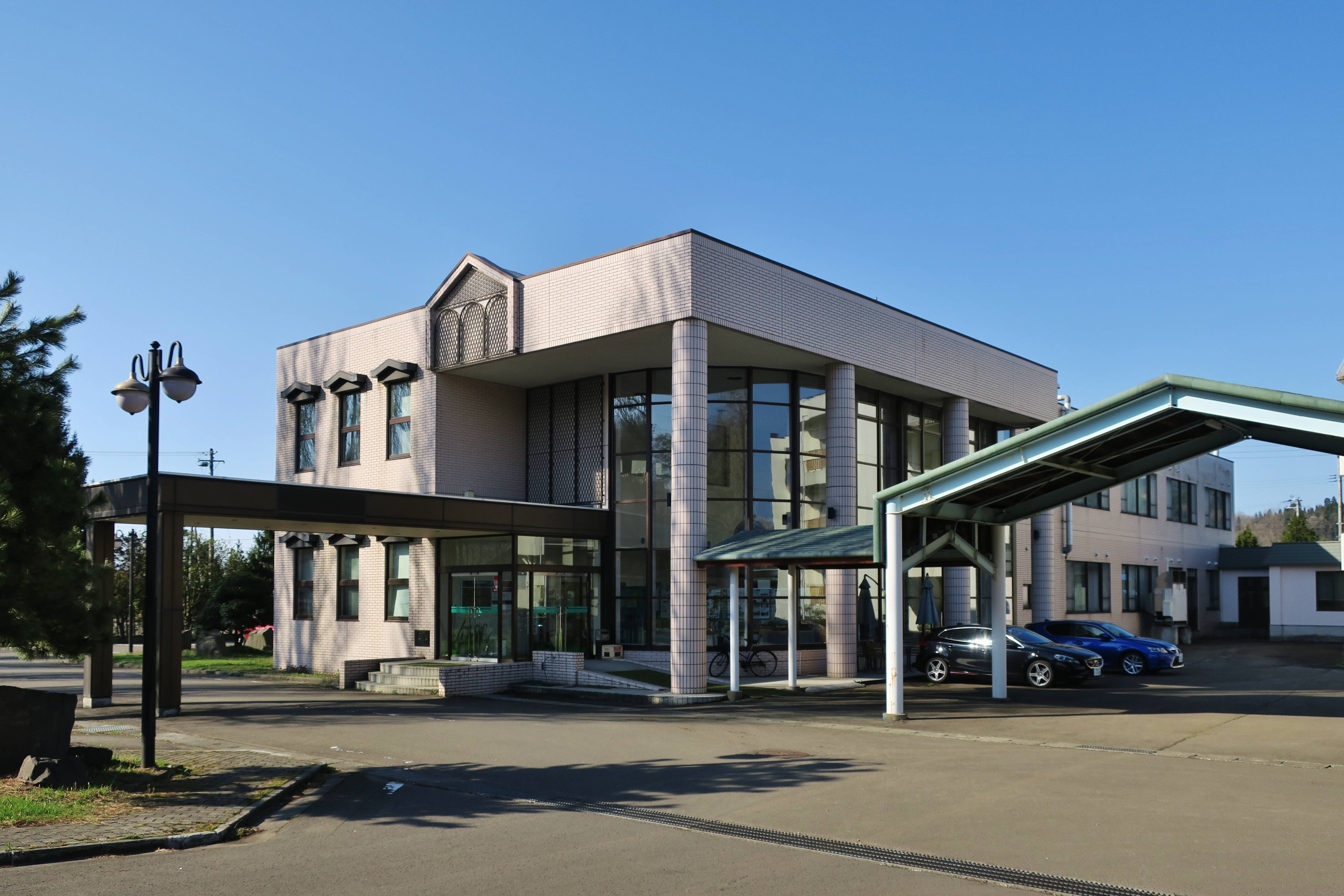 Institute for Mining Research and Studies (Kosaka, Akita).